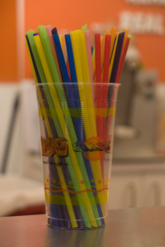 Photograph of drinking straws taken by Athen Ananda.